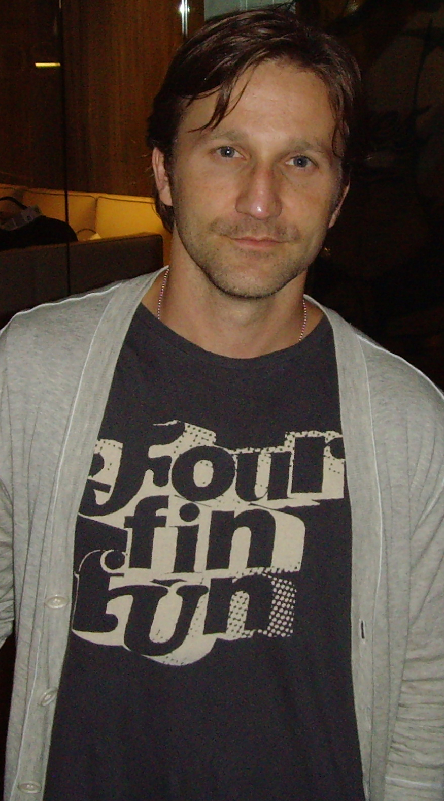 Breckin Meyer in February 2007